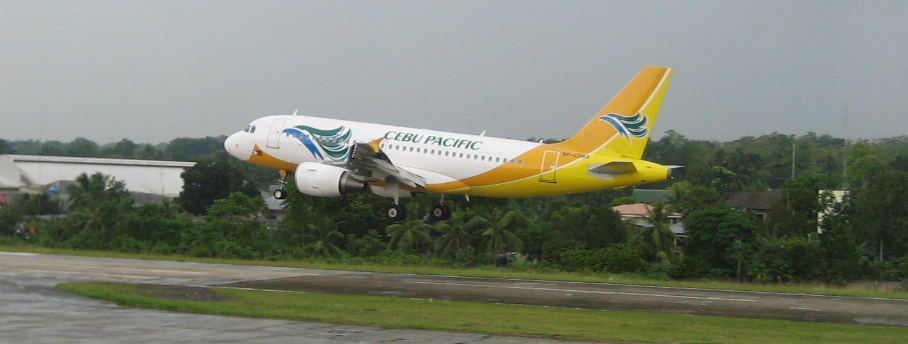 This is a photo of a Cebu Pacific Airbus A319 Landing at the Airport in Tagbilaran City. Photo By Jason Dragon.